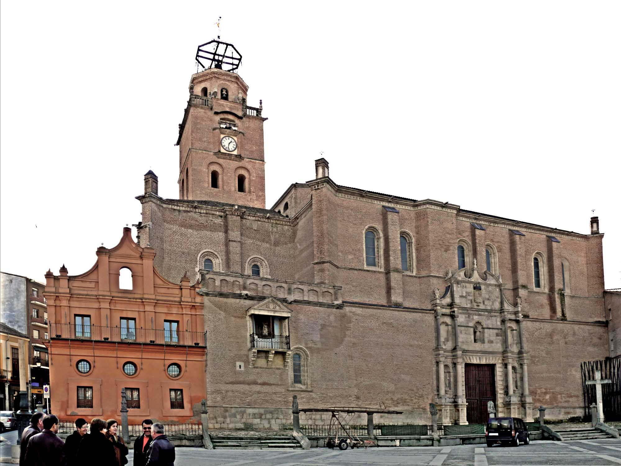 Colegiate church of Medina del Campo (Valladolid province, Spain)